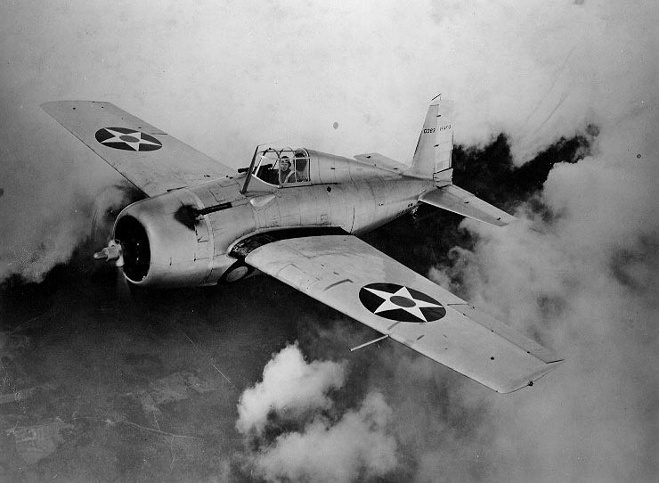 Grumman XF4F-3 prototype (Bureau # 0383) photographed during flight testing, 21 July 1939.